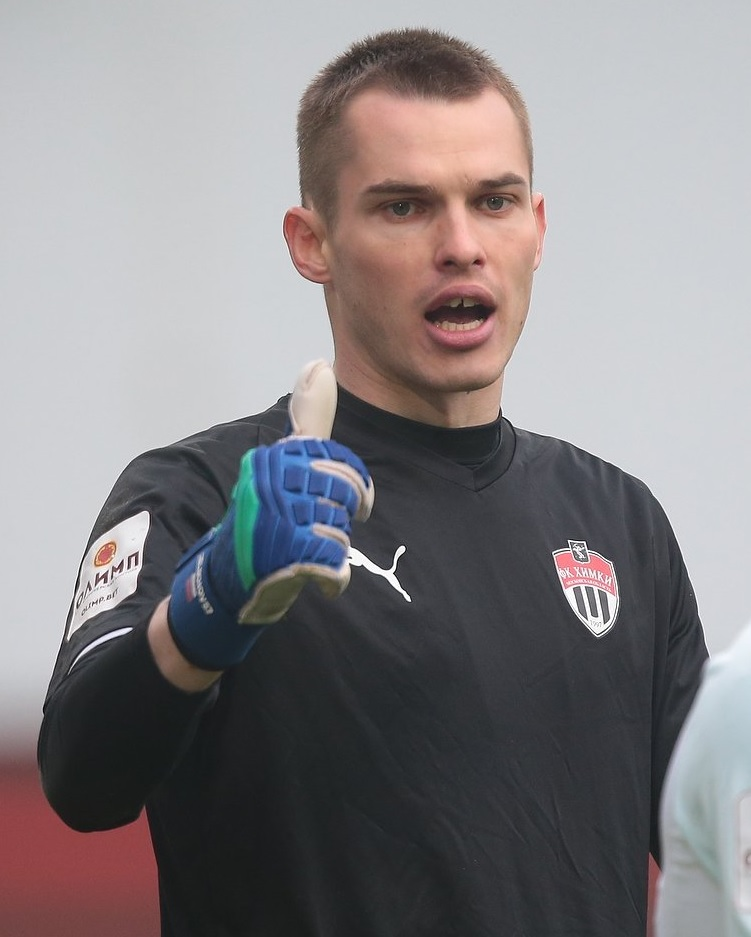 Yevgeni Puzin with FC Khimki in a game against FC Zenit-2 Saint Petersburg.